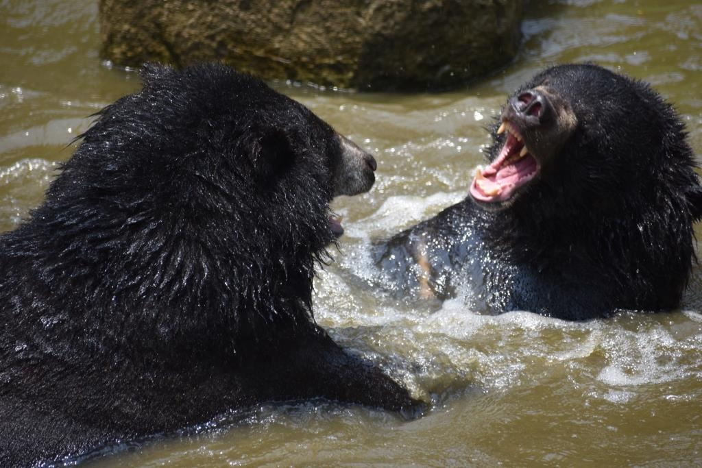 The Himalayan black bears go in hibernation during winters. To survive this winter period, the bears need to eat and store fats before they go to hibernate. The changing weather pattern often results in a lack of available natural food and as a result, the bears get attracted to villages where they end up preying on livestock or granaries. Himalayan black bear, then there must be a food scarcity caused by growing human population, domestic livestock and climate vagaries. large scale depletion of their natural food in the wild and to compensate that they are turning towards villages. Bears are extraordinarily intelligent animals. They have far superior navigation skills to humans; excellent memories; large brain to body ratio; and use tools in various contexts from play to hunting. Bears have excellent senses of smell, sight, and hearing. They can smell food, cubs, a mate or predators from kilometers away. Their great eyesight allows them to detect when fruits are ripe. These bears are black with a whitish or creamy colored ‘Y’ on their chest. They have large ears and their hair is extra long and fluffy around their neck and shoulders. In the bear world, they would be considered medium-sized. This bear is a little more fierce than other species and will attack humans if threatened or surprised. They tend to spend a lot of time in trees in order to avoid their main predator...people. Asiatic bears make “nests” in trees for sleeping in the summer months and use twigs to make comfortable beds in the snow in winter.